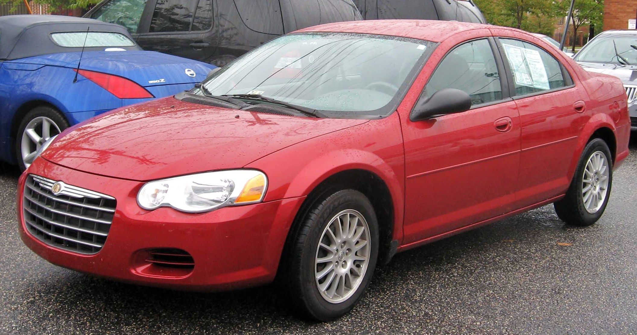 2006 Chrysler Sebring photographed in Wheaton, Maryland, USA.